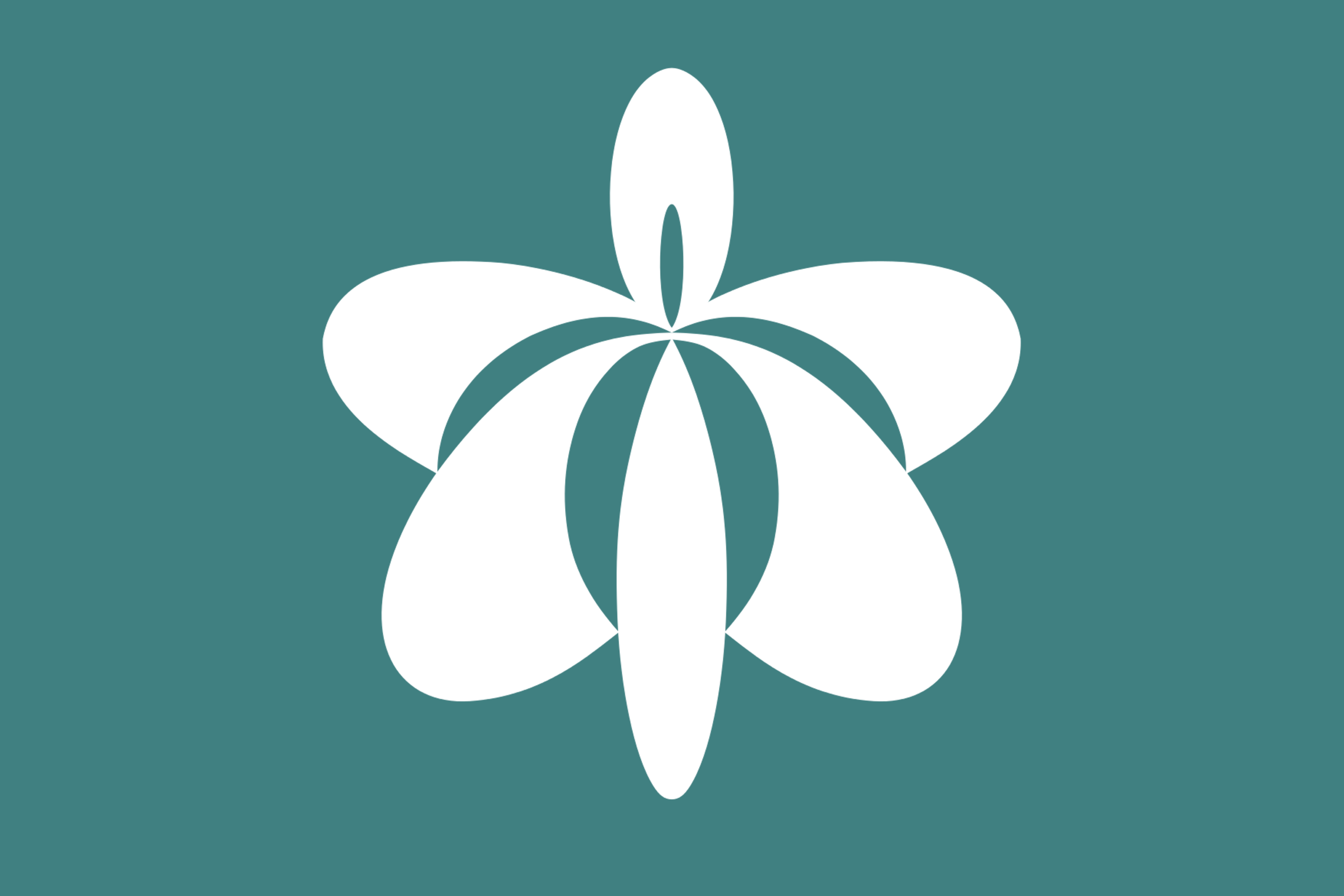 Flag of Yurihonjo Akita created as per this description (由利本荘市章及び市旗の制定について2005年3月22日制定) and using the seal (File:Symbol of Yurihonjo, Akita.svg) from Wikipedia.